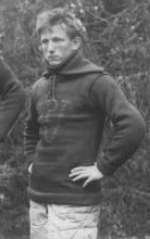 C. J. B. DeCamps in Virginia Polytechnic Institute football uniform